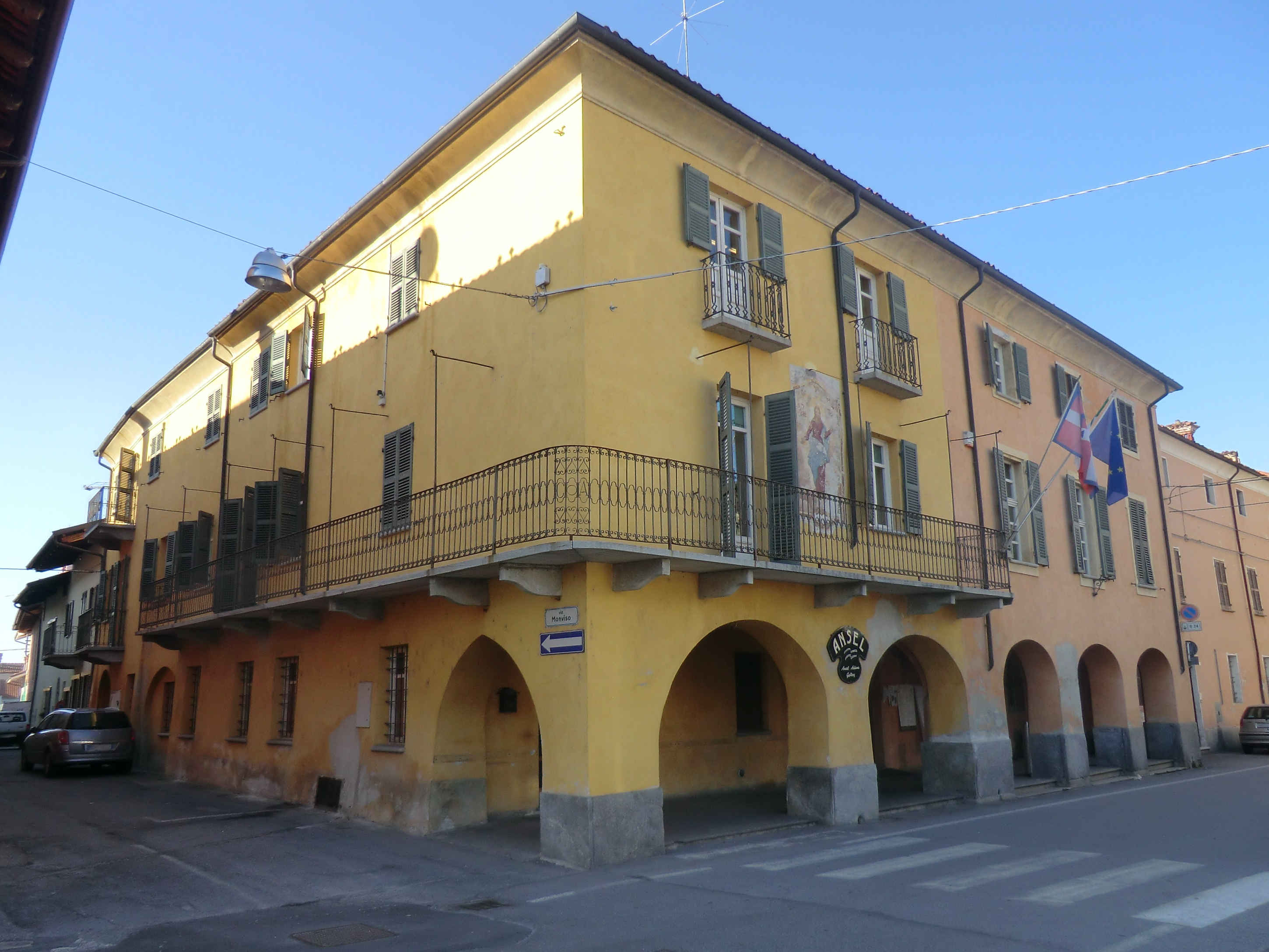 Sant'Albano Stura (Cuneo - Italy): city hall